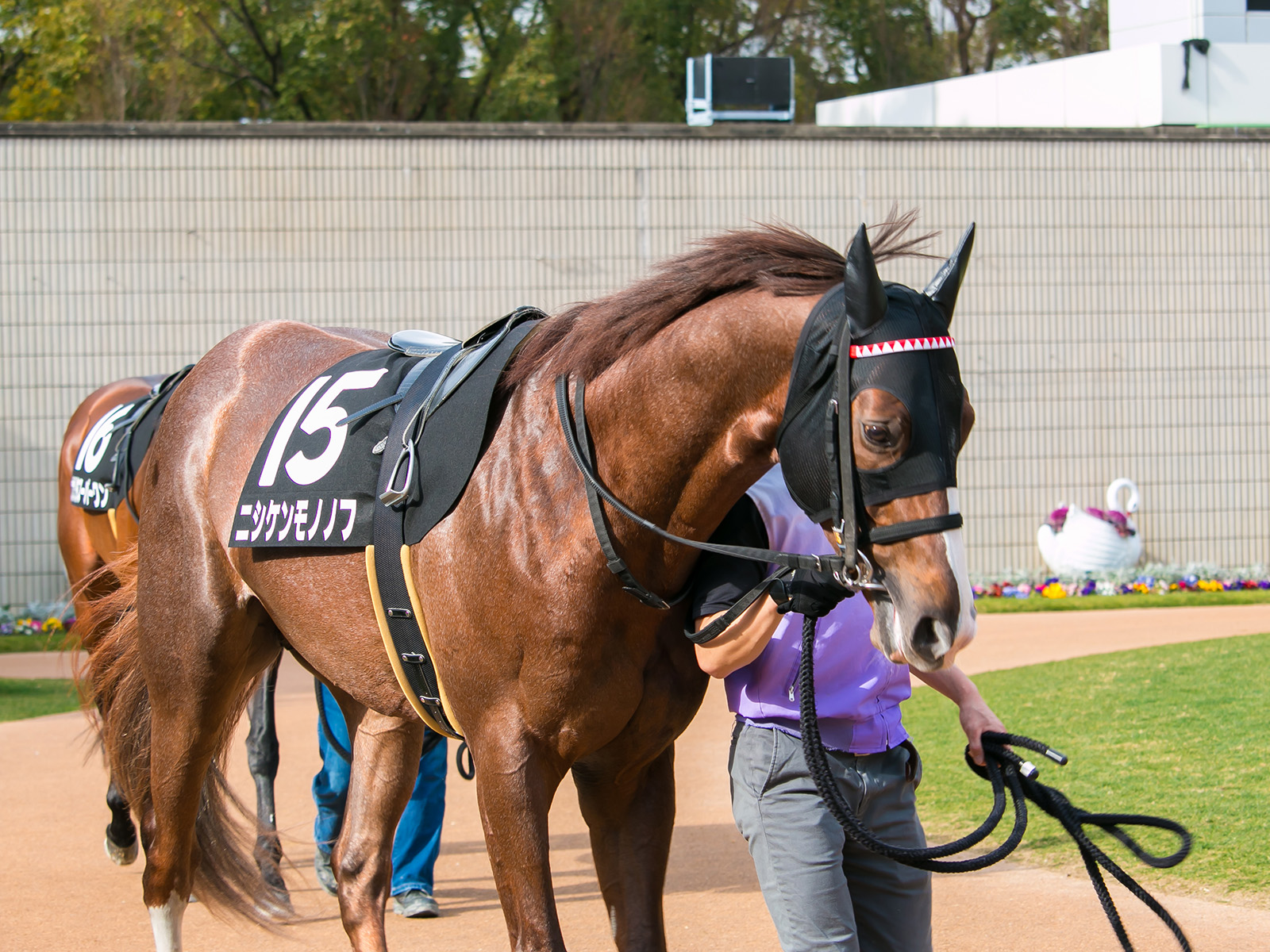 Nishiken Mononofu (Racehorse of Japan).